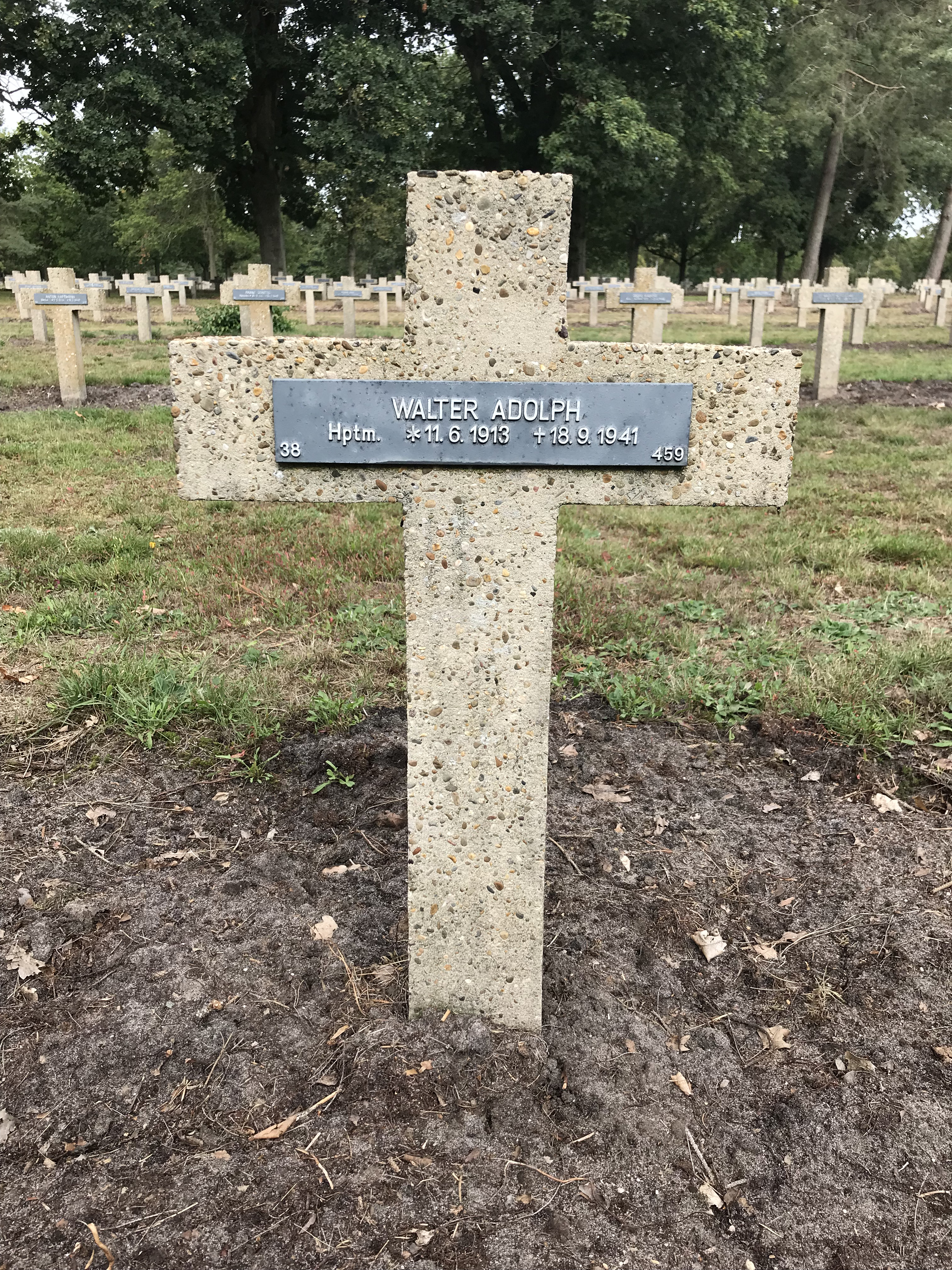 Grave of Walter Adolph 38-459